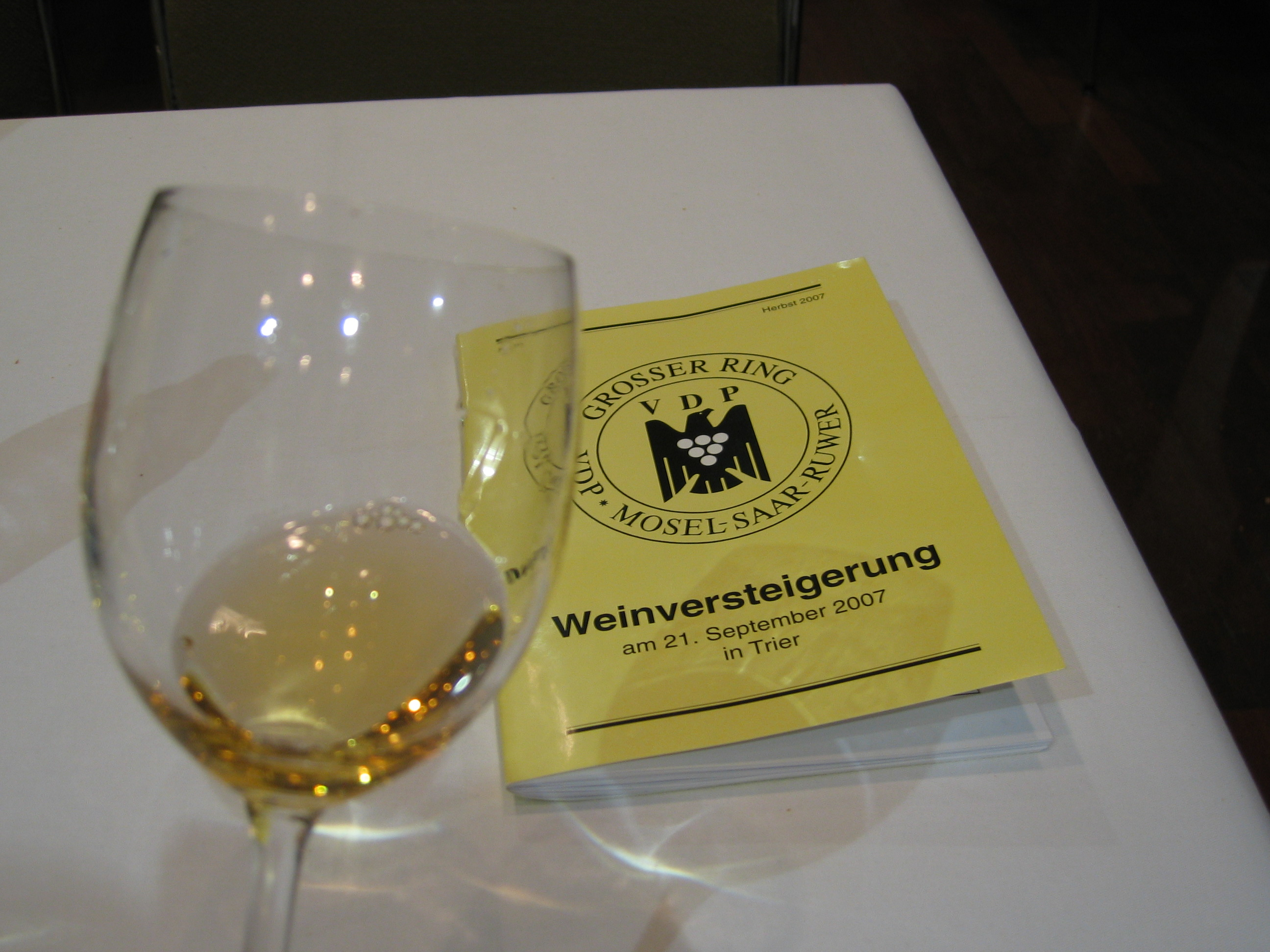 A sample of a 2005 Riesling Trockenbeerenauslese and the auction catalogue at the 2007 VDP wine auction in Trier, Germany